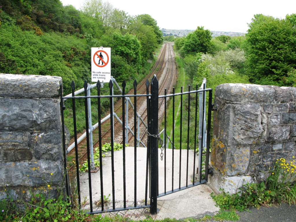 The remains of Defiance Platform. Situated near Wearde Quay on the River Lynher, this station was once used by naval personnel from the barracks at HMS Defiance. It is seen in 2009, looking towards Saltash.